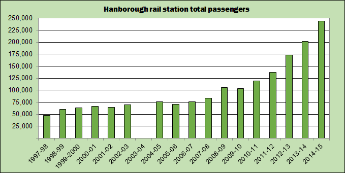 Bar chart of Office for Rail Regulation annual passenger estimates for Hanborough railway station, Oxfordshire, from 1997–98 to 2014–15